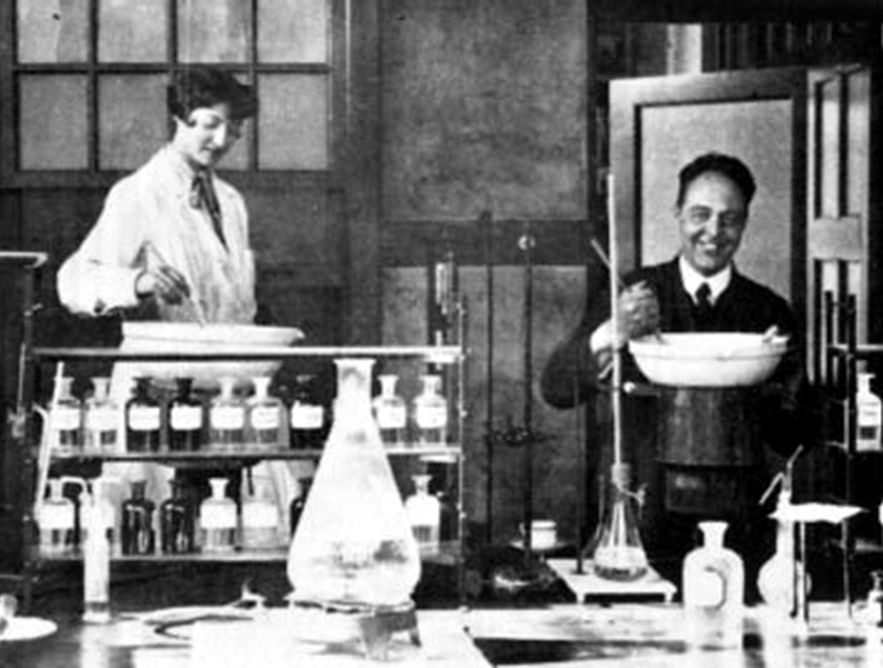 Prof P.E. Verkade en echtgenote in laboratorium